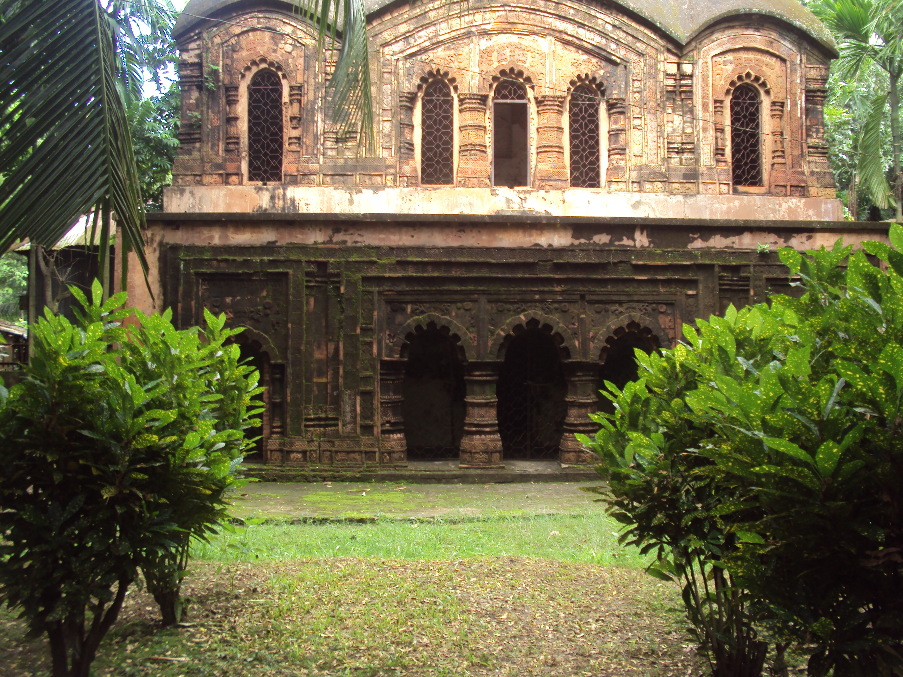 The great “Rajaram Mandir” which is located at the Khalia village from Tekerhat, Madaripur. This is a two stored temple, and Bangladesh government taken control of this and promulgate this as the Archaeological heritage of the country. It’s not known when the temple was built. From the name, its easily guess that, it was built by someone rich person Rajaram. This lovely temple has noticeable number of terracotta on the wall and the pillar. The experts used to say the images from the temple actually depict some portion of the Mahabharat and Ramayan. If you are an archaeological heritage lover, then it’s a must visit place for you. LikeShow more reactionsComment